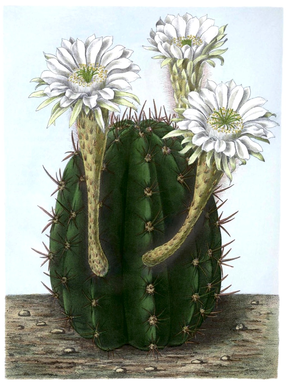 Echinopsis rhodotricha